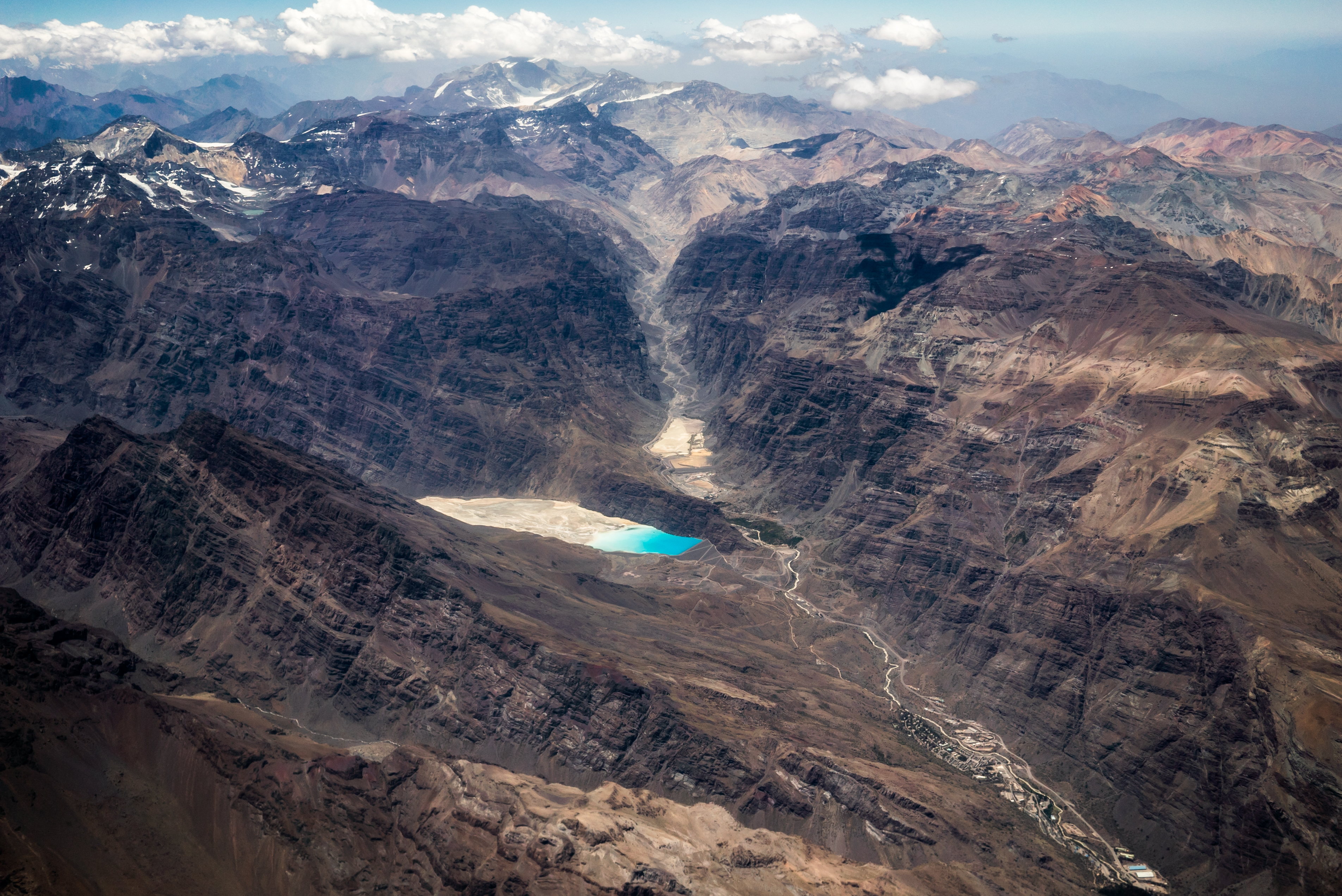 Chile